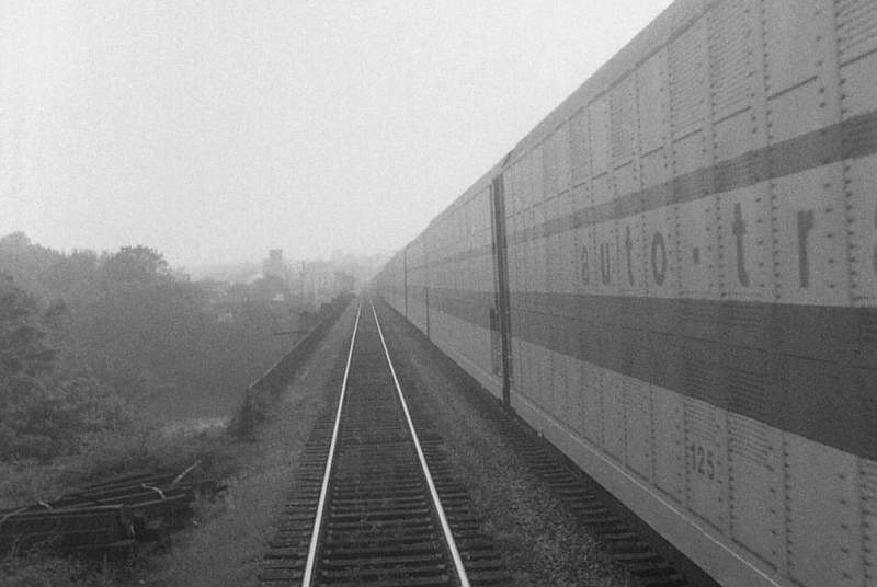 The southbound Auto Train viewed from the rear of the northbound Silver Star at Fredericksburg, Virginia, circa 1978